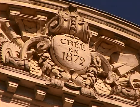 Pediment detail - IDN building, Institut industriel du Nord de la France created in 1872, building with pediment built between 1873 and 1875 at 17 rue Jeanne d'Arc, Lille, France. Architecte : Charles Alexandre Marteau